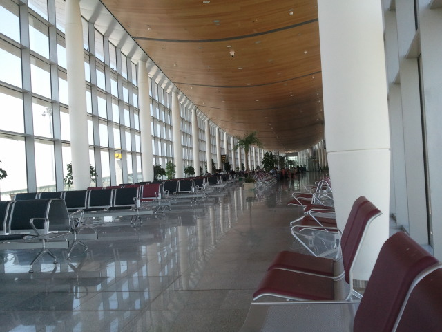 Spacious new departure hall in Alexandria new airport